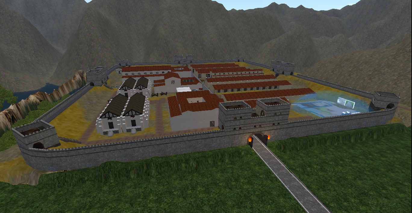 This is a recreation of the Binchester Roman Fort, called Vinovia or Vinovium by the ancient Romans. This one lies in a virtual ancient Rome called ROMA in the virtual world of Second Life.